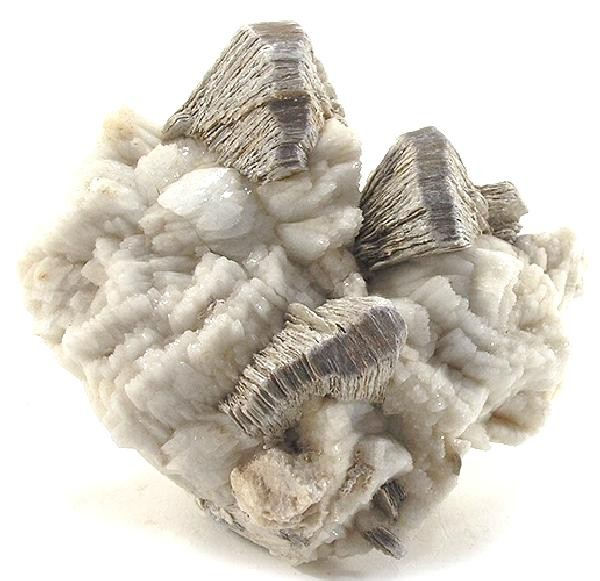 Muscovite, Albite Locality: Pack Rat Mine, Mt. Tule, Jacumba District, San Diego County, California, USA (Locality at ) A BEAUTIFUL and STRIKING CABINET specimen of three, pristine, lustrous, gray muscovite books superbly set in milky-white albite matrix. The contrasting directions of the vertical, wedge-shaped mica books really add pazzazz to this fine piece. This choice specimen hails from the famous Pack Rat Mine of San Diego County, California. Ex Chuck Houser Collection. 12.0 x 9.0 x 7.5 cm